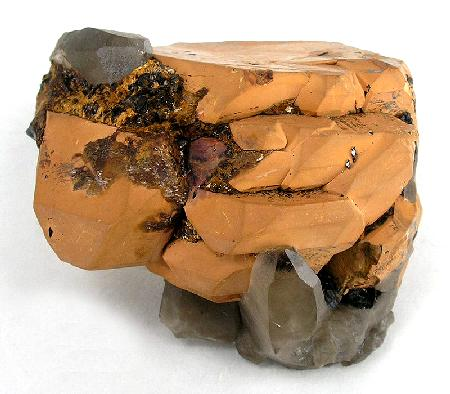 Ilmenite, Quartz Locality: Erongo Mountain, Usakos and Omaruru Districts, Erongo Region, Namibia (Locality at ) Size: cabinet, 9 x 7 x 5 cm ILMENITE on SMOKY QUARTZ This is one of Charlie's two best ilmenites...he said that he rushed to the find, when they came out, and obtained the best of the lot along with only one other SA collector (whos epiece was pictured recently in the MR for comparison). Charlie felt that for size and sharpness, and overall display, this is the best. You can see it is a very 3-dimensional specimen with beautiful, geometric form and a really nice complementing balance of smokies with the ilmenites amongst which they grow. I think these are world class ilmenites for the species, especially because they are relatively beautiful and less earthy than usual in this size. The smokies, and the perfection of the piece overall in its display, make it of a quality for any collector to consider, not just those who like the "rare uglies"!